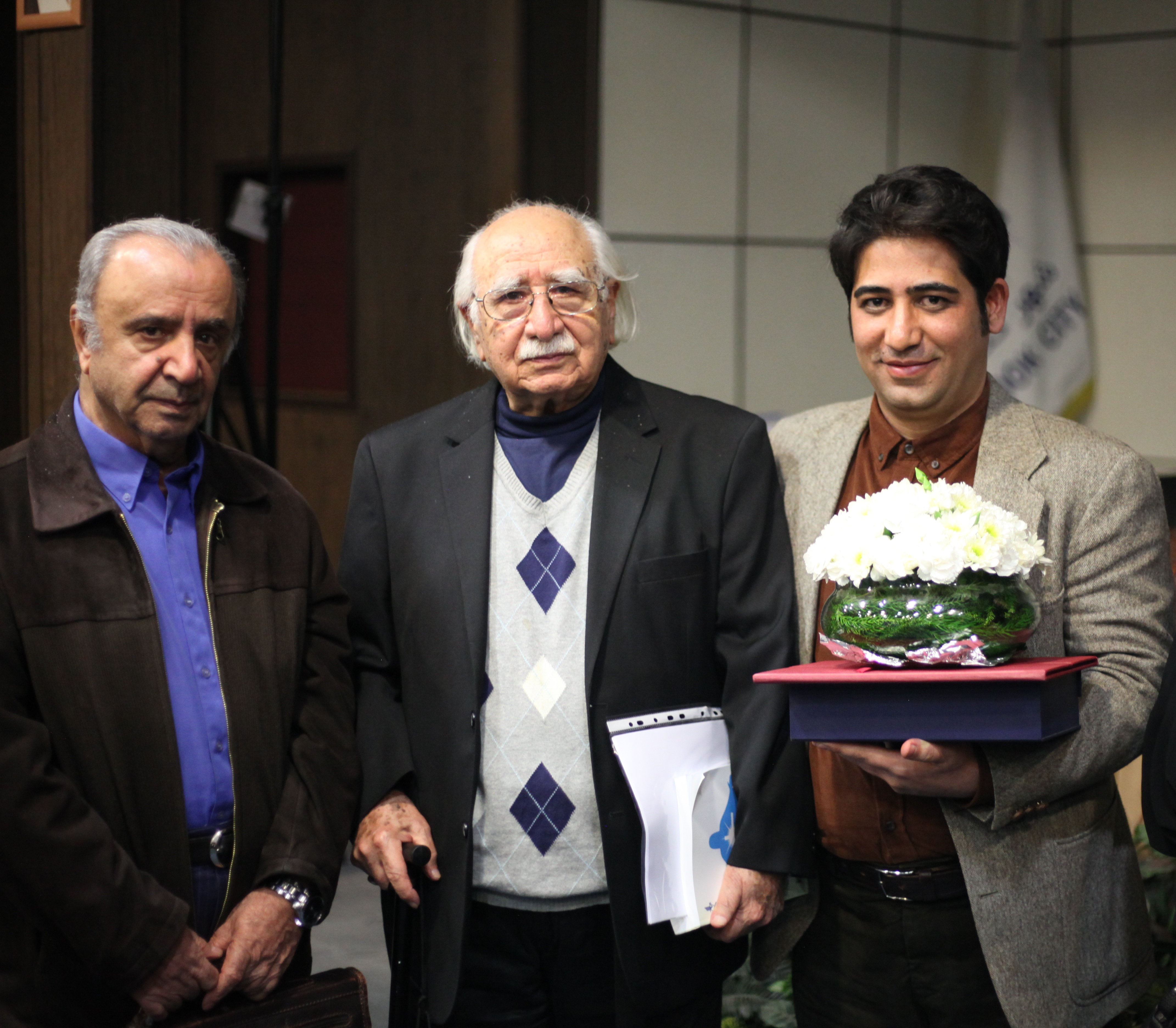 The Ninth Award granting ceremony of Dr. Fathollah Mojtabaei